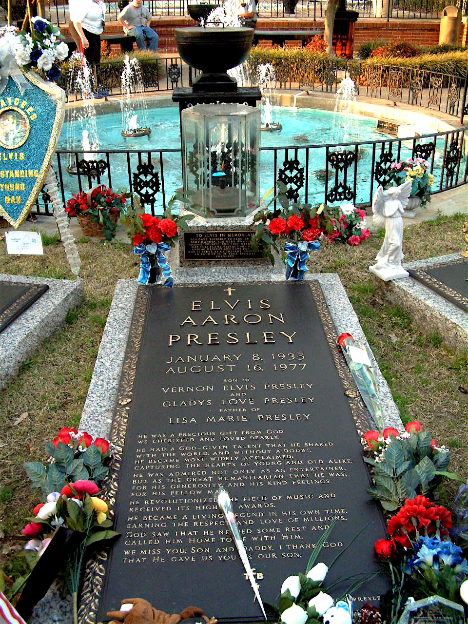 Elvis' grave site at Graceland